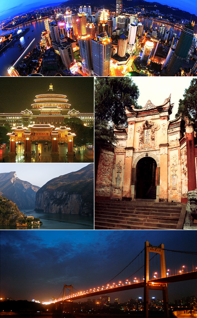 Montage of various Chongqing images.